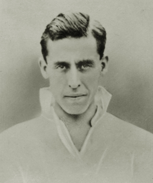 Harry Stott - Brentford FC - Unmarked postcard from 1921.